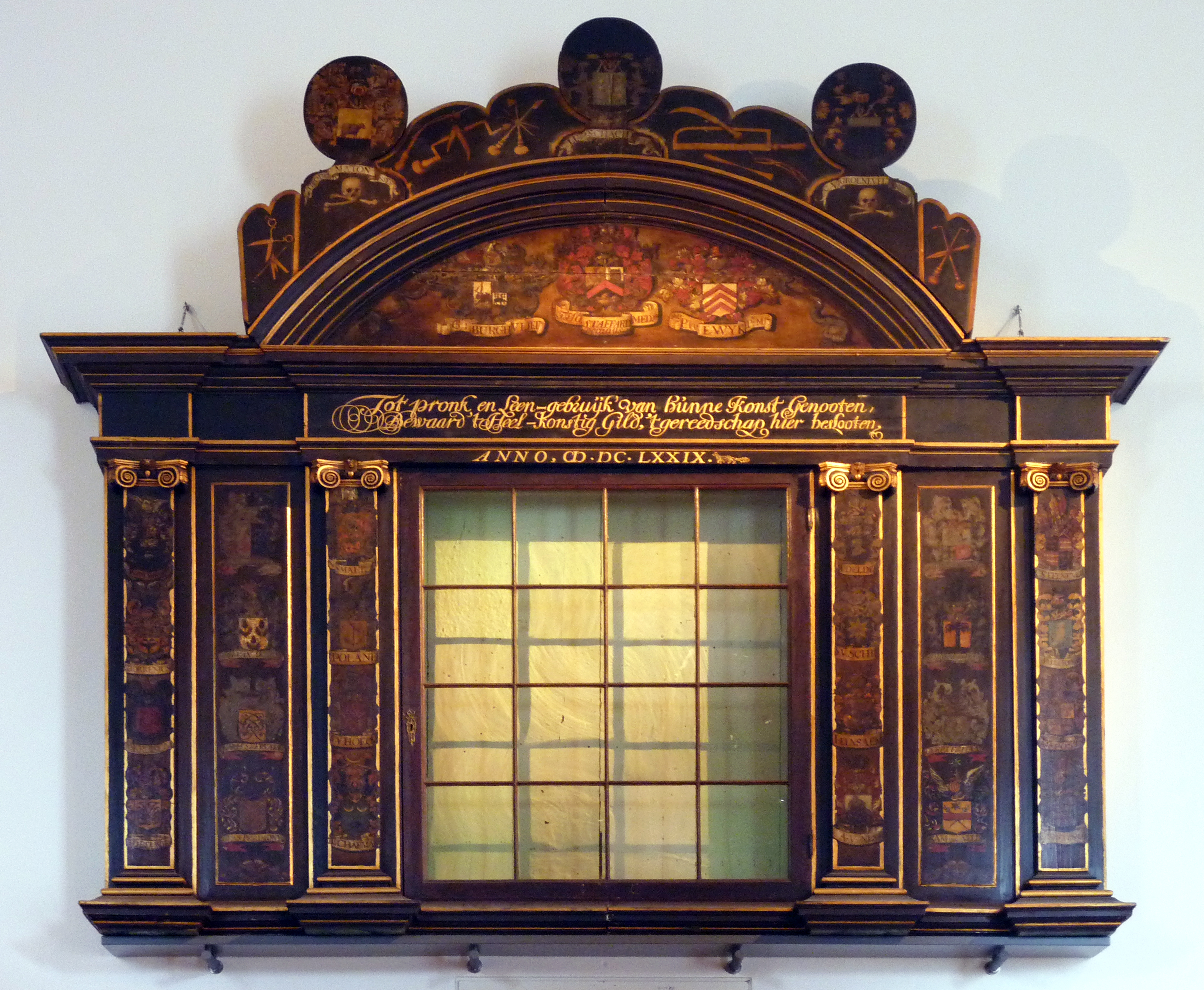 Museum Boerhaave, Leiden - Surgeons instrument chest used by the Leiden surgeons’ guild and decorated with the coats-of-arms of board members.